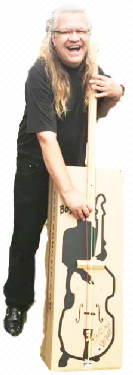 The new design was introduced in 2012